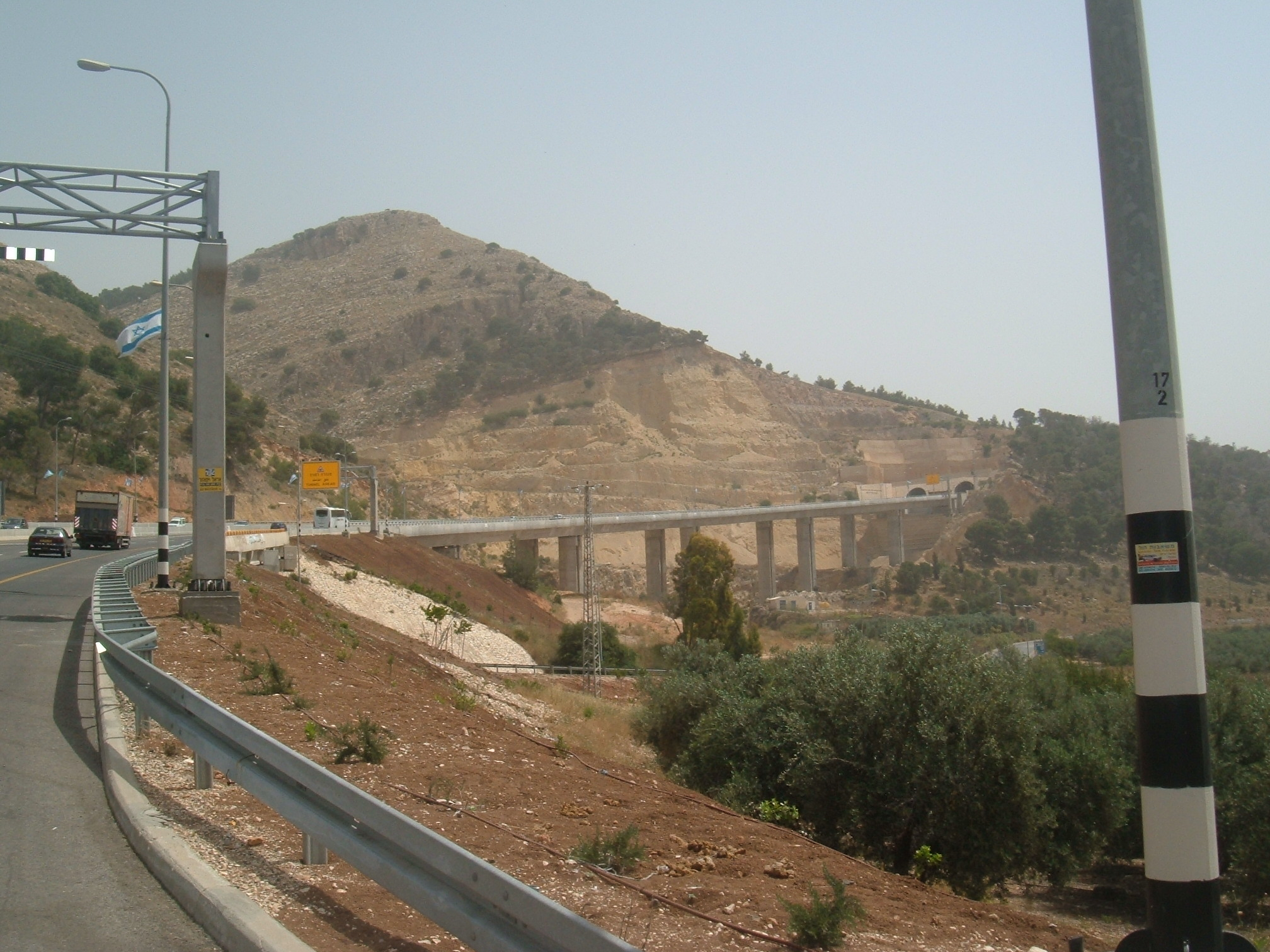 tunnel linking Afula and nazereth illit running through mount precipice Nazareth כביש המנהרות בין עפולה ונצרת עילית העובר בתוך הר הקפיצה